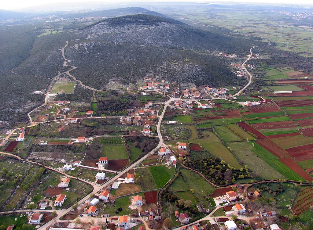 brdo